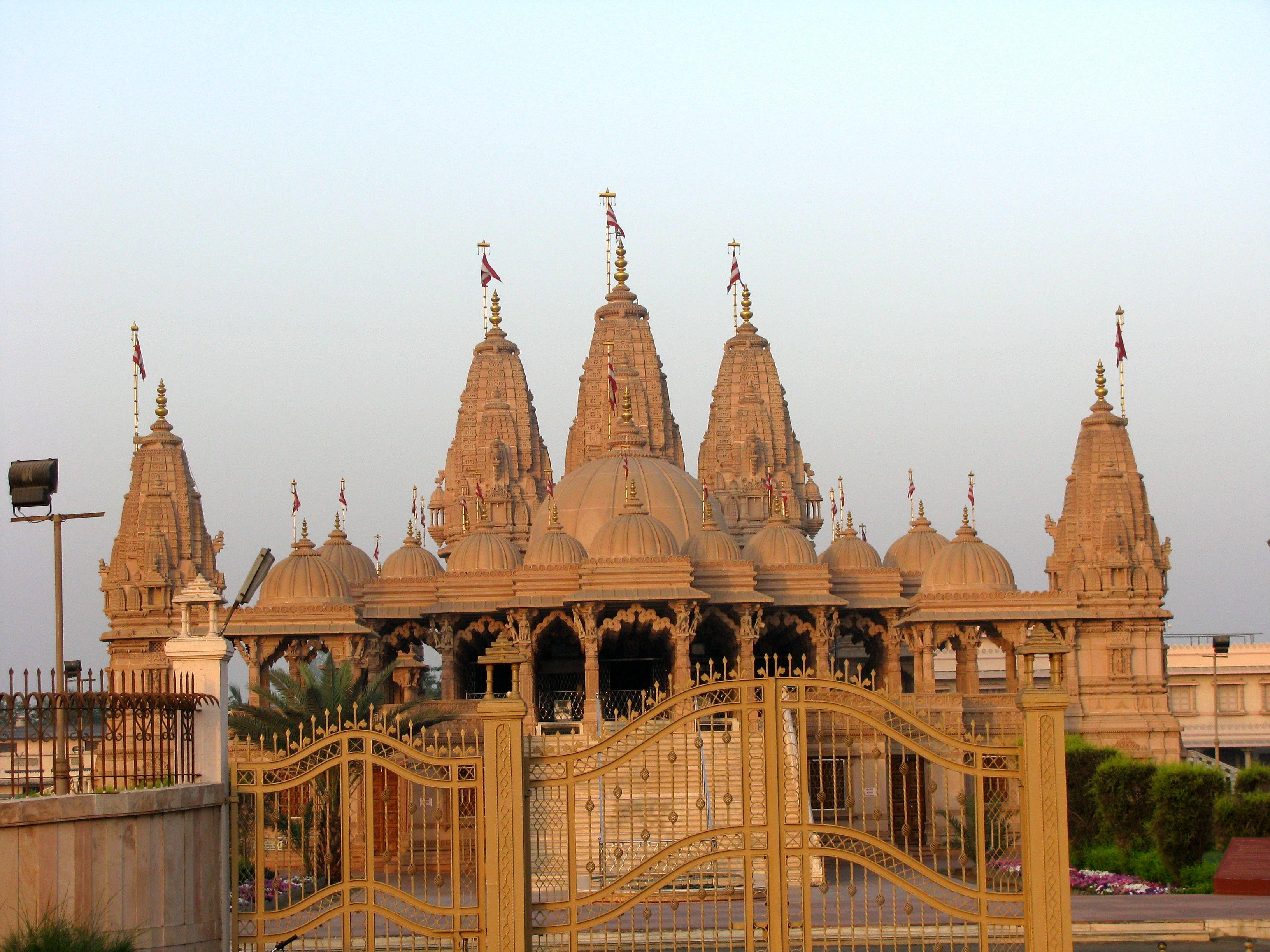 Swaminarayan temple at NH-8 Zadesvar,Bharuch,Gujarat,India.